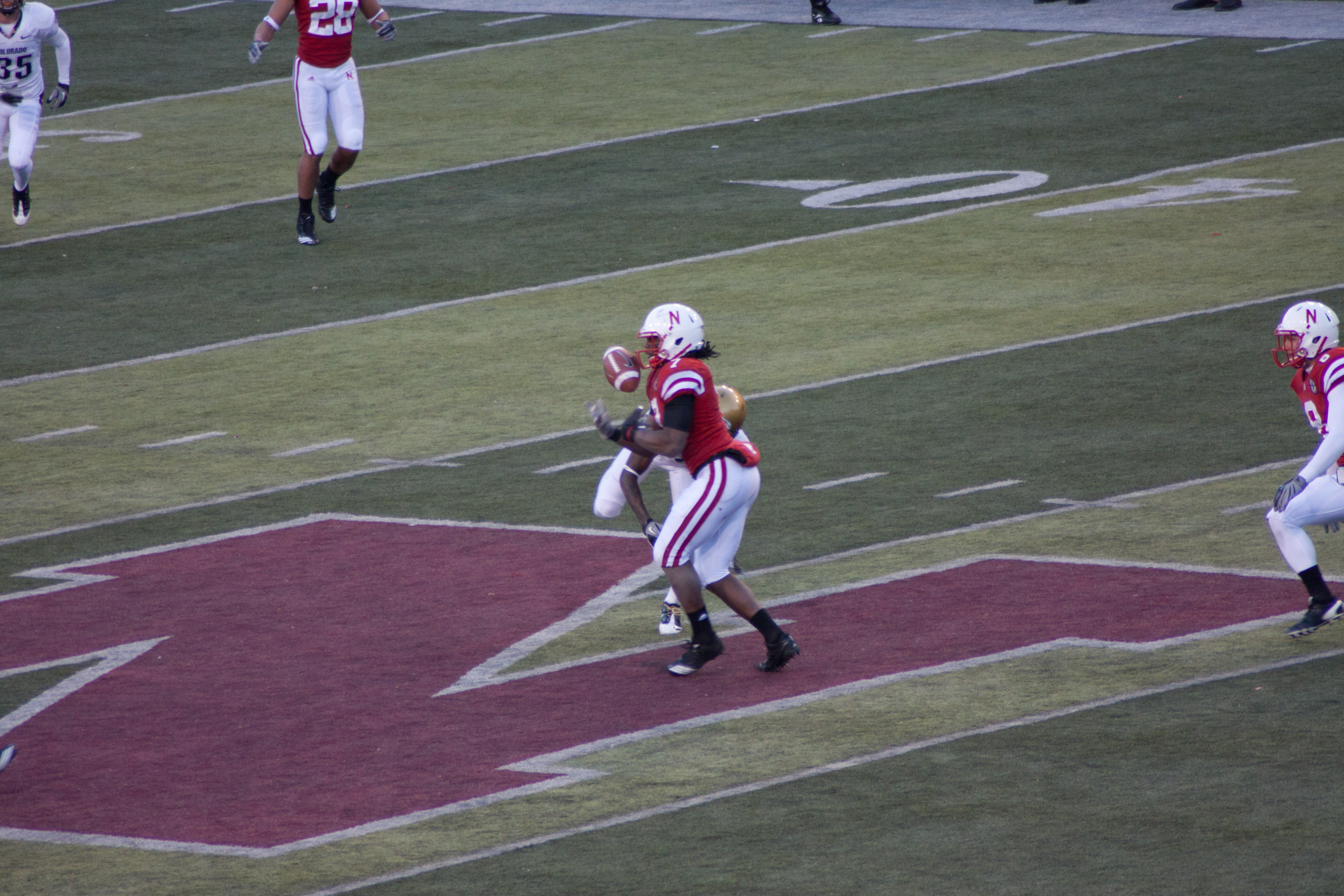 Nebraska Cornhuskers safety, DeJon Gomes, making an interception against the Missouri Tigers.